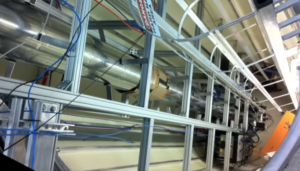 Partial view of a leg of the LIGO interferometer.